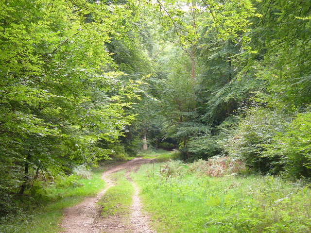 Ranmore Common Bridleway Leafy dry valley in thick deciduous woodland on top of the North Downs. The pathway is wide and usually firm underfoot because of the underlying flint.